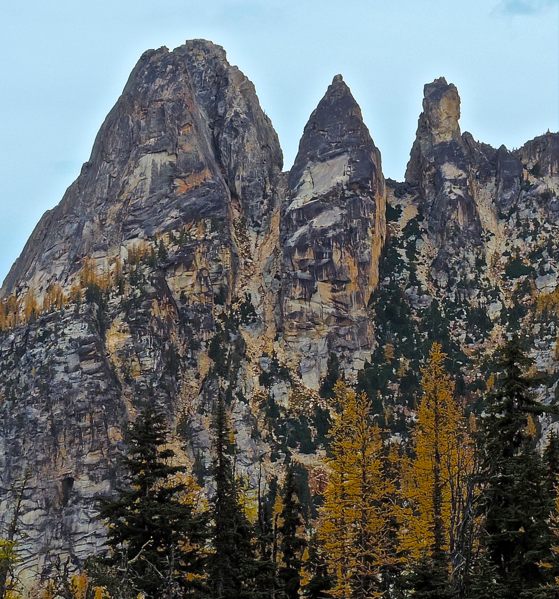 Liberty Bell Mountain (left), Concord Tower (center), Lexington Tower (right) seen from Blue Lake. North Cascades of Washington state.